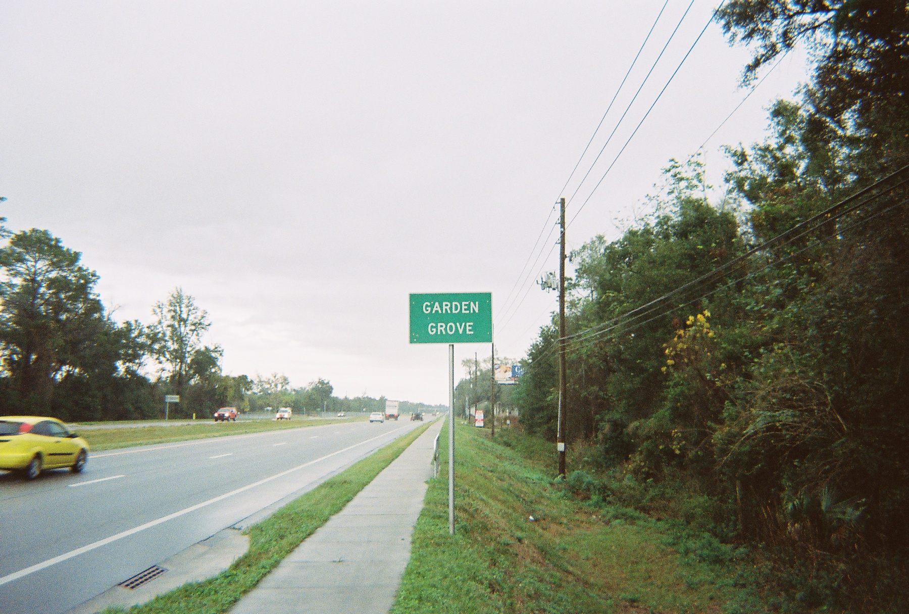 U.S. Route 41 as it enters Garden Grove, Florida from Masaryktown, Florida. I ended up blocking traffic to take this pic, but I had to take it to prove that Garden Grove exists as a town or hamlet.